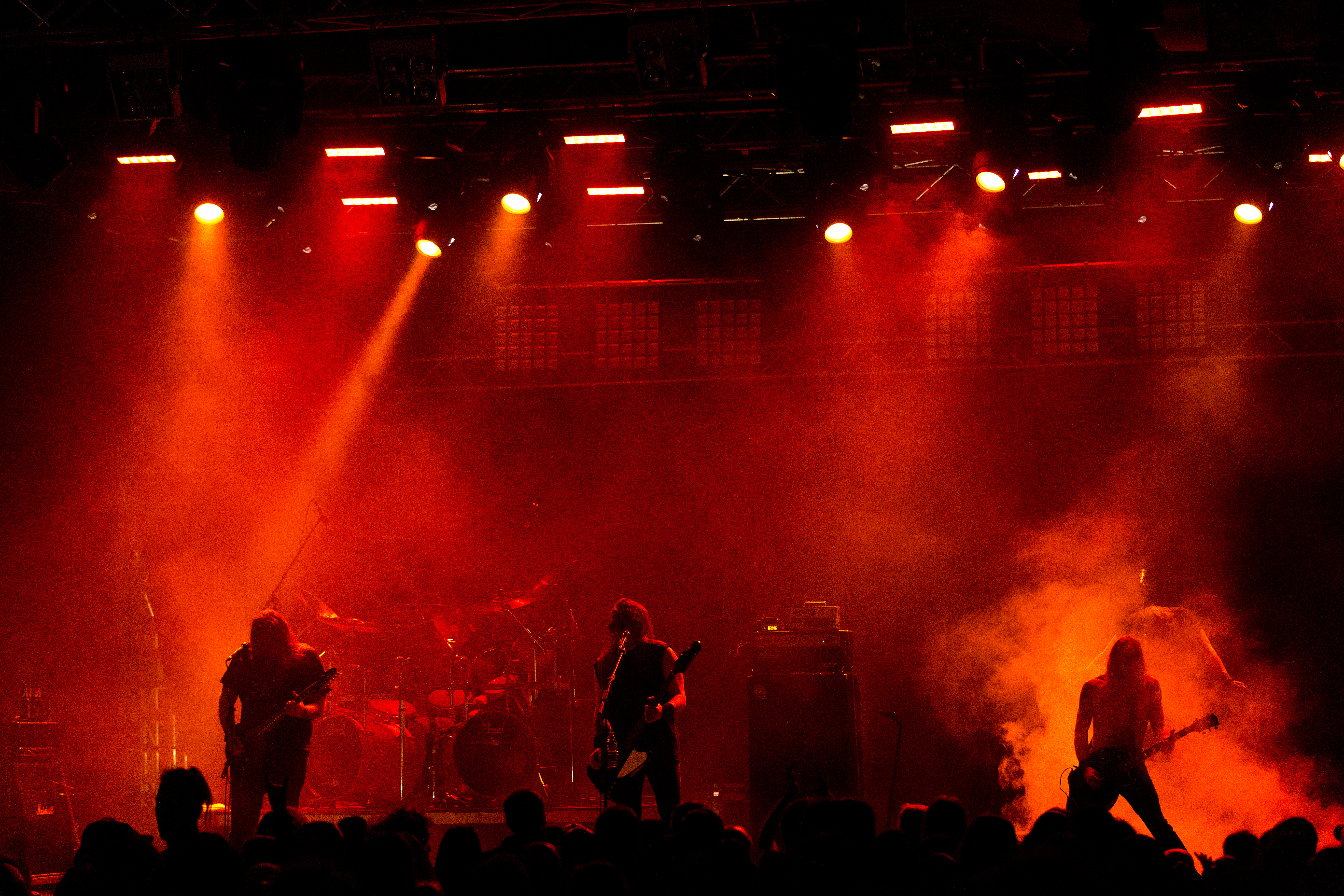 The Norwegian viking/progressive metal band Enslaved at the 25. Wave-Gotik-Treffen 2016 in Leipzig/Germany.